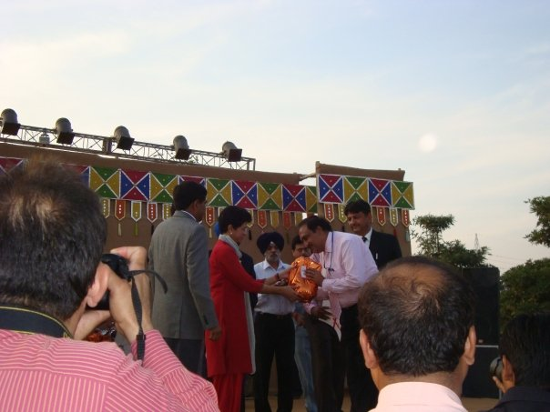 Kumari Selja Presenting Certificate of Commendation at 1st Chandigarh Crafts Mela